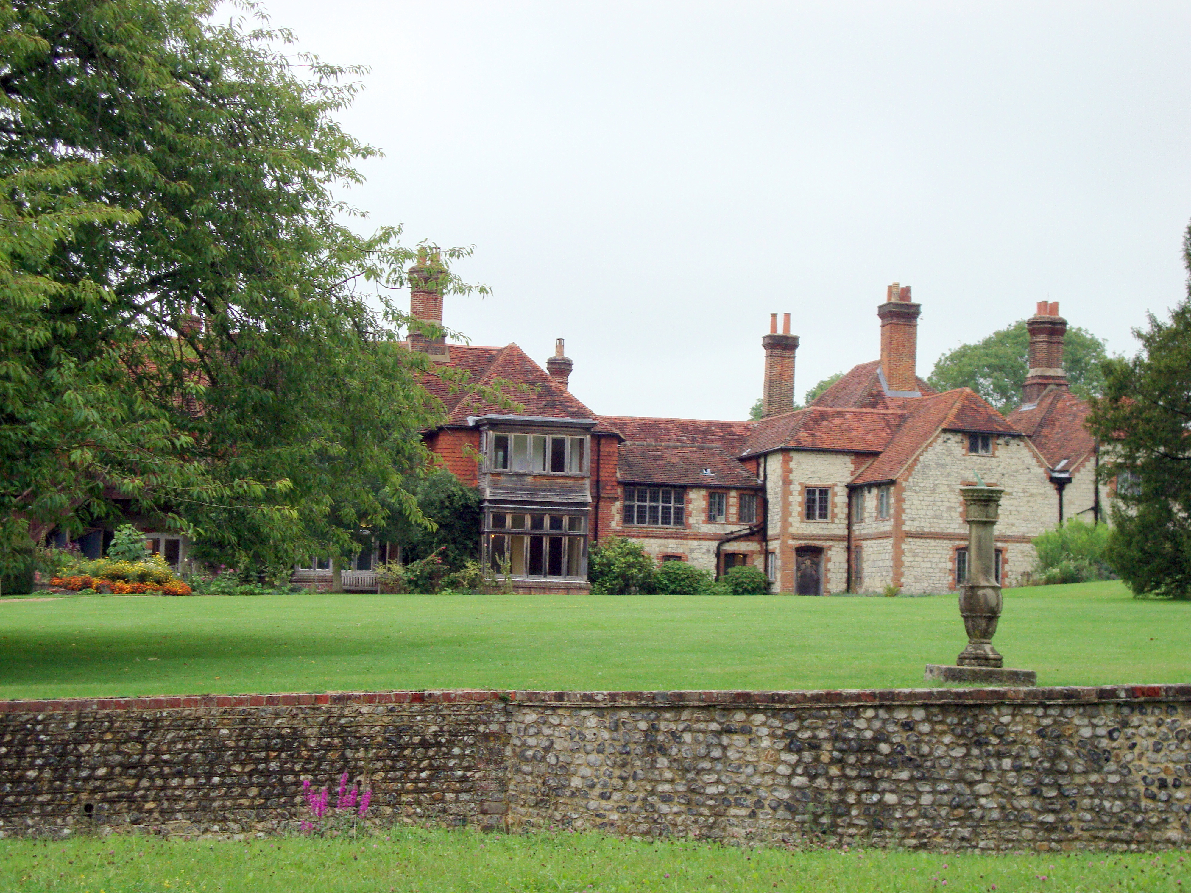 A view from the back garden of Gilbert White's house, The Wakes, which houses the Gilbert White Museum and the Oates Memorial Museum.